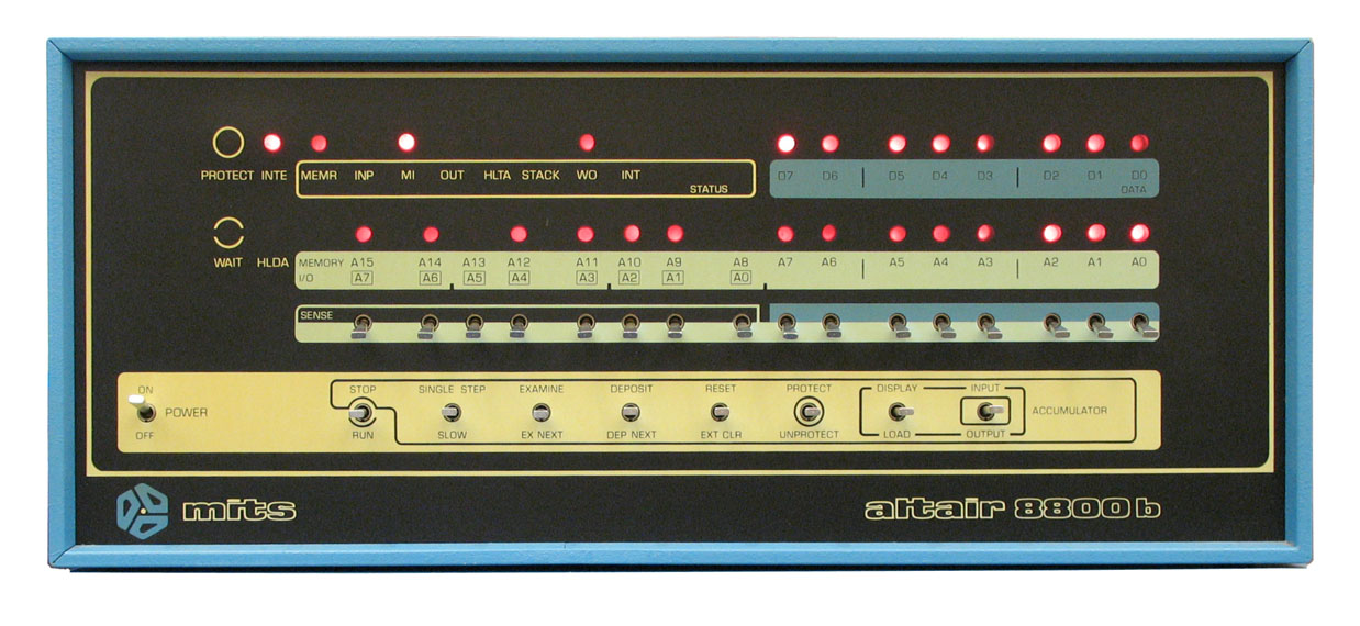 The MITS Altair 8800b was introduced in mid 1976 as the successor to the original Altair 8800 that appeared on the cover of Popular Electronics in January 1975. It had an improved front panel, larger power supply, an 18 slot mother board. The price was $840 for a kit and $1100 for an assembled unit. A typical hobbyist system with 16K of memory, a video display, a cassette tape data storage, and BASIC language software would be around $2000. The BASIC language software was written by Bill Gates, Paul Allen, and Monte Davidoff. Computer displayed by Robert Rosenbloom at the Vintage Computer Festival. This was held at the Computer History Museum in Mountain View, California, November 2007. Photo by Michael Holley, November 2007. Taken with a Canon PowerShot A630 (1/10 second and F/3.2) with existing light.